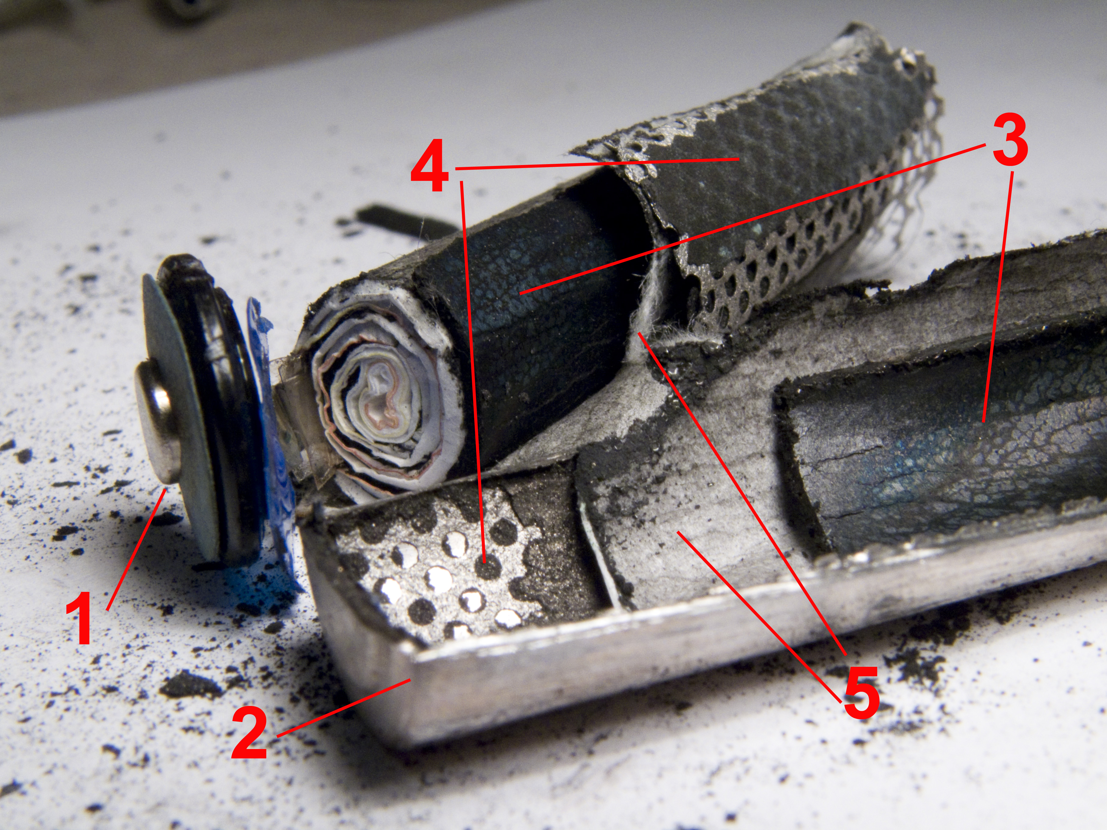 Disassembled Ni-Mh AA cell. 1: positive terminal 2: outer metal casing (also negative terminal) 3: positive electrode 4: negative electrode with current collector (metal grid, connected to metal casing) 5: separator (between electrodes)